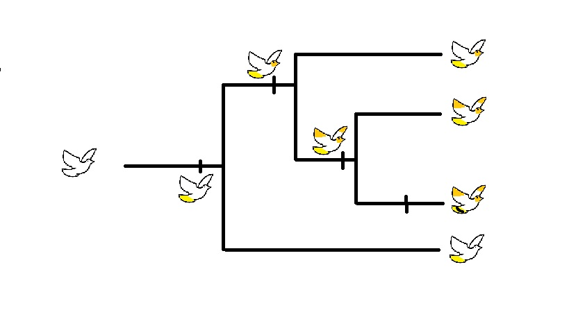 Cladogram of imaginary bird species to illustrate plesiomorphy and symplesiomorphy